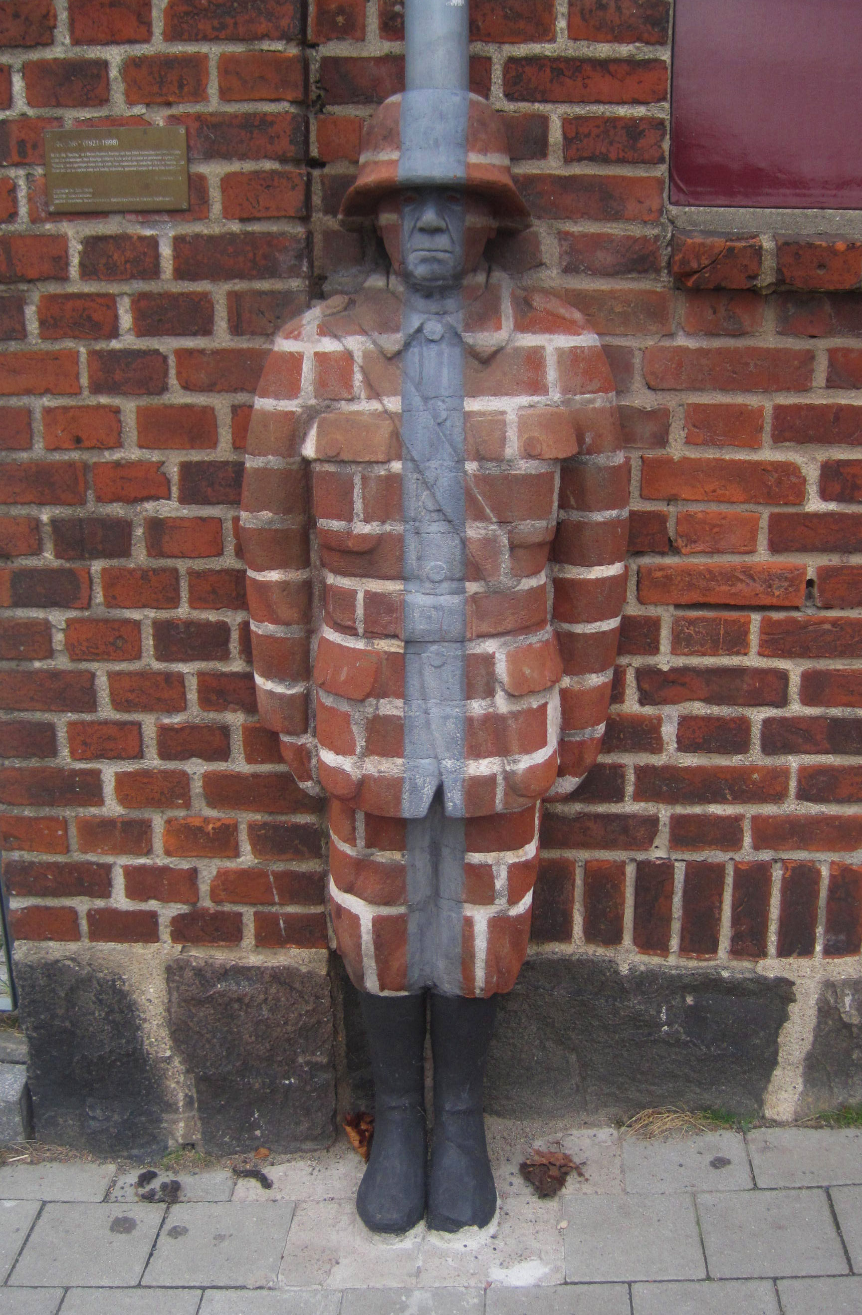 Statue outside Hasse och Tage-museet in Tomelilla portraing Folke Lindh ("Spuling"; 1921-1998) in his role as a camouflaged German soldier in the film The Adventures of Picasso. Sculpture made by Artist Anders Hellström